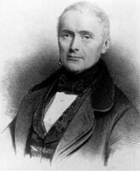 The portrait of Belgian musician Charles Hanssens (1777—1852)